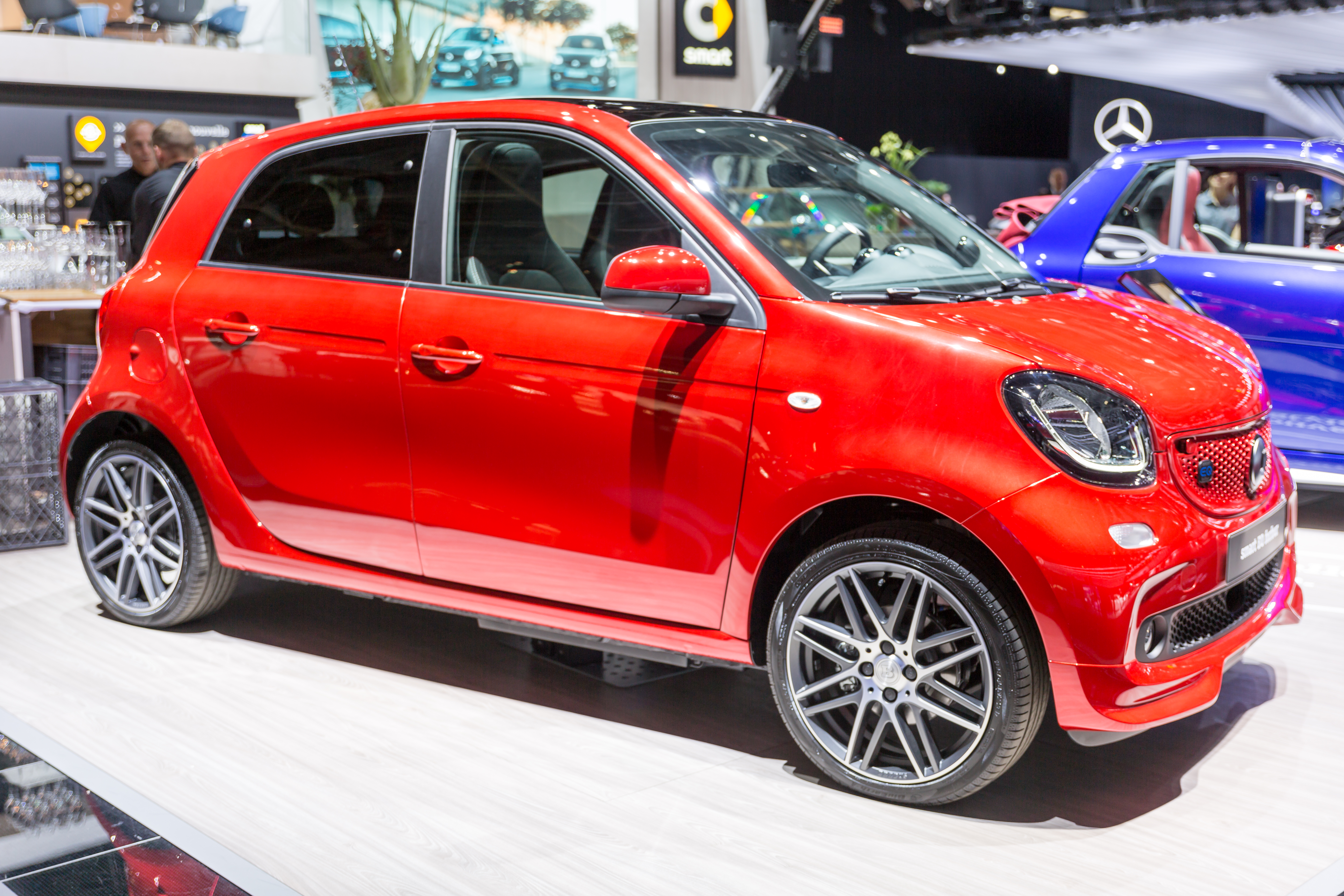 Press days at Mondial Paris Motor Show 2018